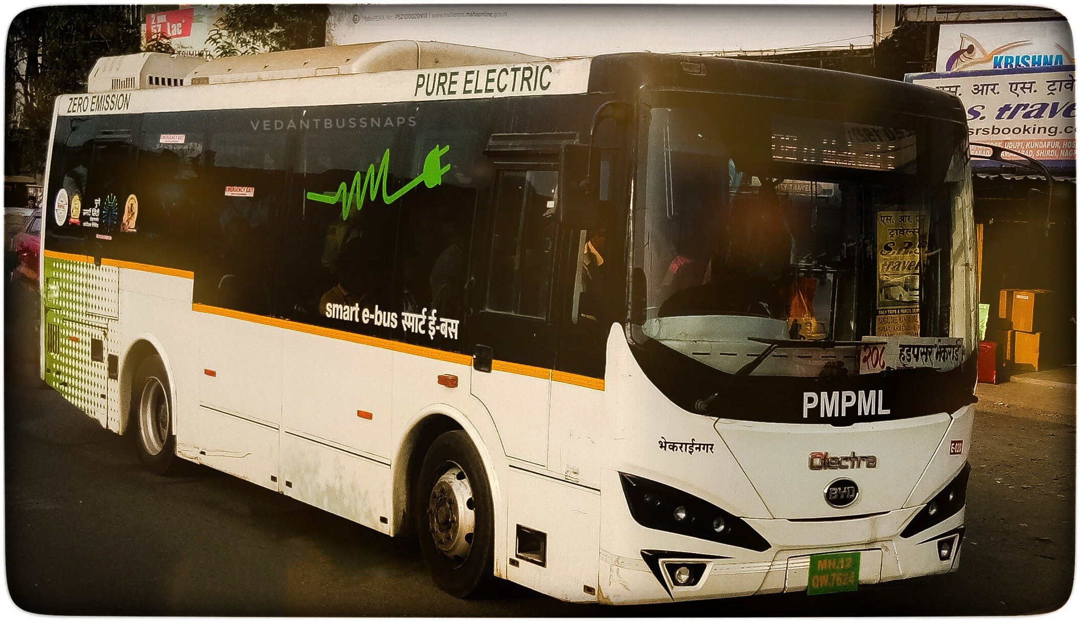 Newly launched Electric AC 9 mtr Bus